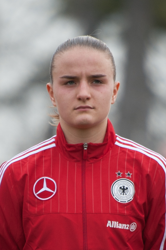 UEFA European Women's U17 Championship elite round Germany vs. Switzerland, 2016-03-19